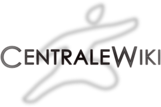 CentraleWiki's logo